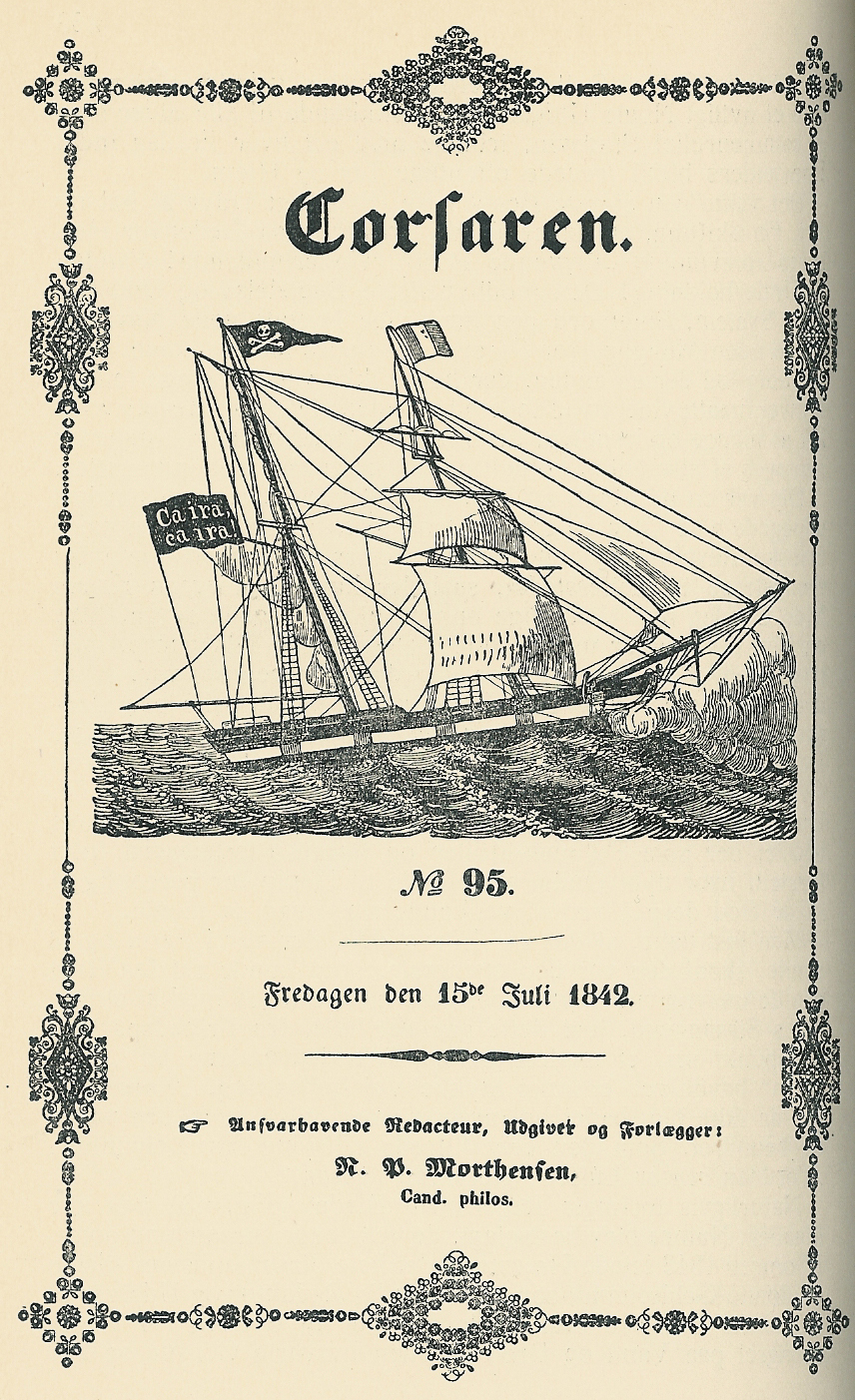 Titelblad af Corsaren 15. juli 1842.